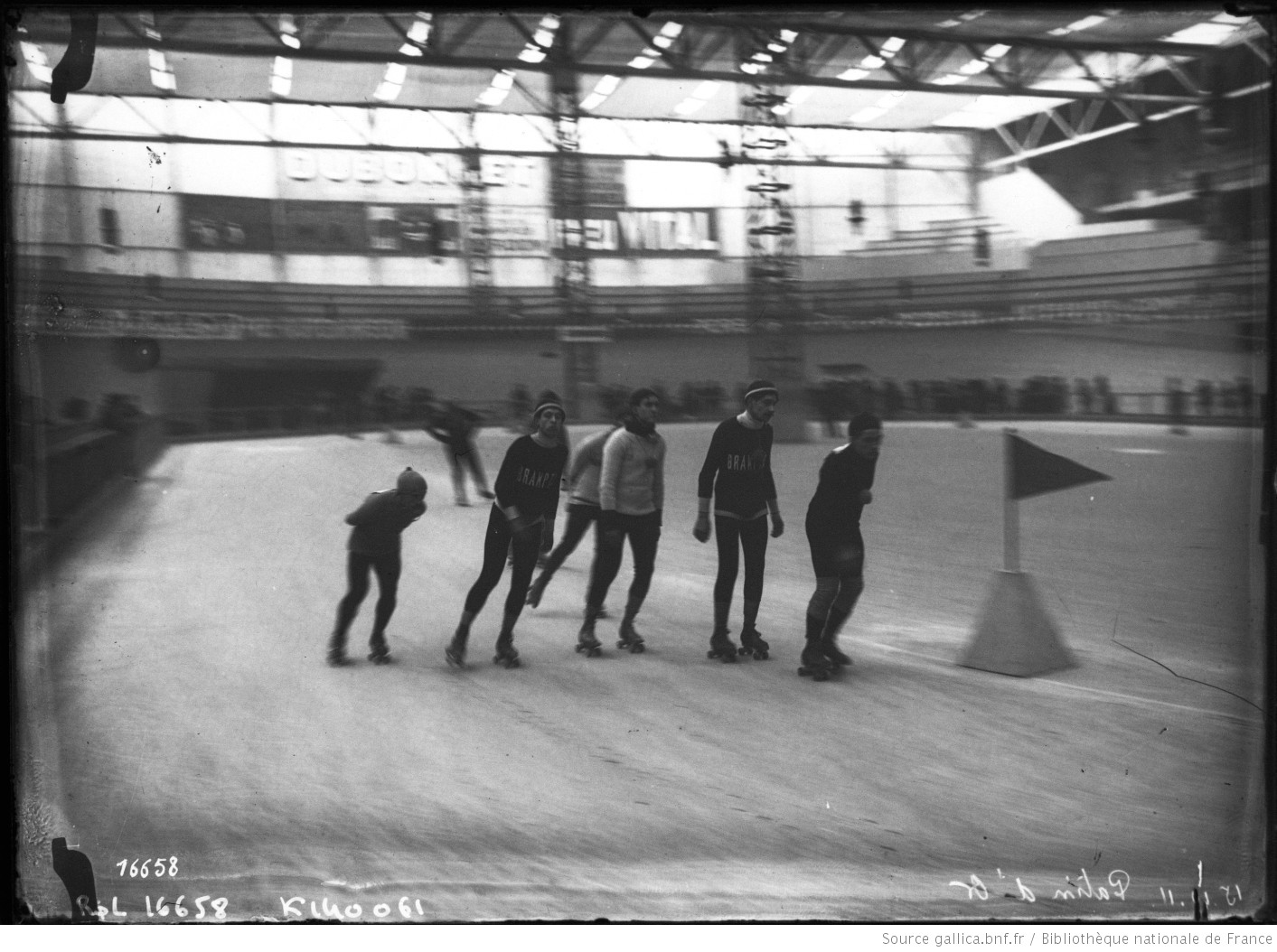 Press Photo taken during the Patin d'or ("Gold Skating"), 15 October 1911. This skating competition was held for 24 hours at the Vélodrome d'hiver (Winter Velodrome) in Paris.